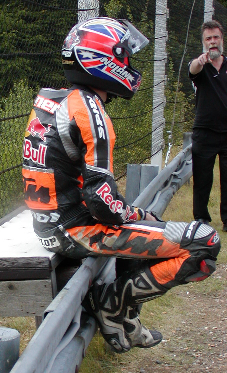 Casey Stoner, GP Brno 2004